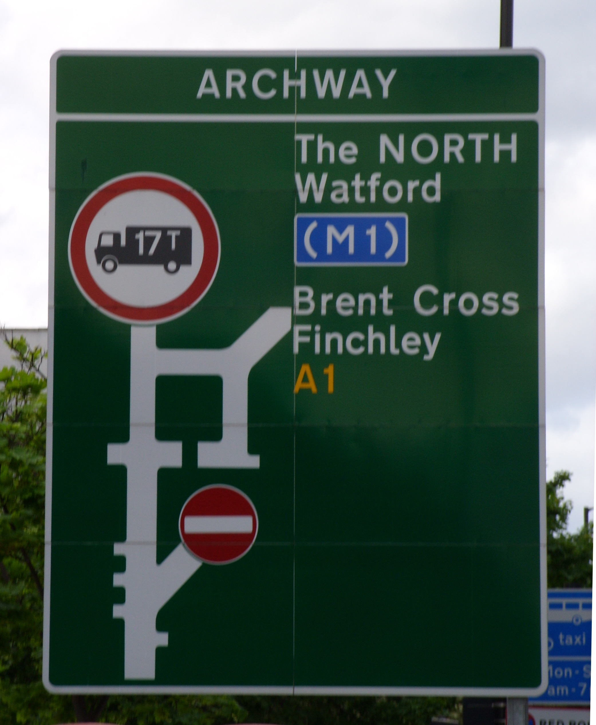 Road sign at the Archway roundabout, London